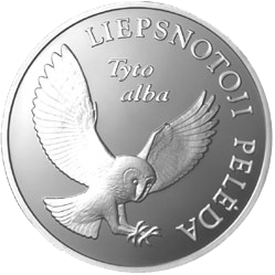 5 litas coin featuring Lithuanian Nature (International Coin Programme "Endangered Wildlife") Silver Ag 925 Quality proof Diameter 38.61 mm Weight 28.28 g The words on the edge of the coin: LIETUVOS BANKAS The designer of the coin is Giedrius Paulauskis Mintage 3,000 pcs Issued 2002 The coin was minted at the state enterprise Lithuanian Mint.